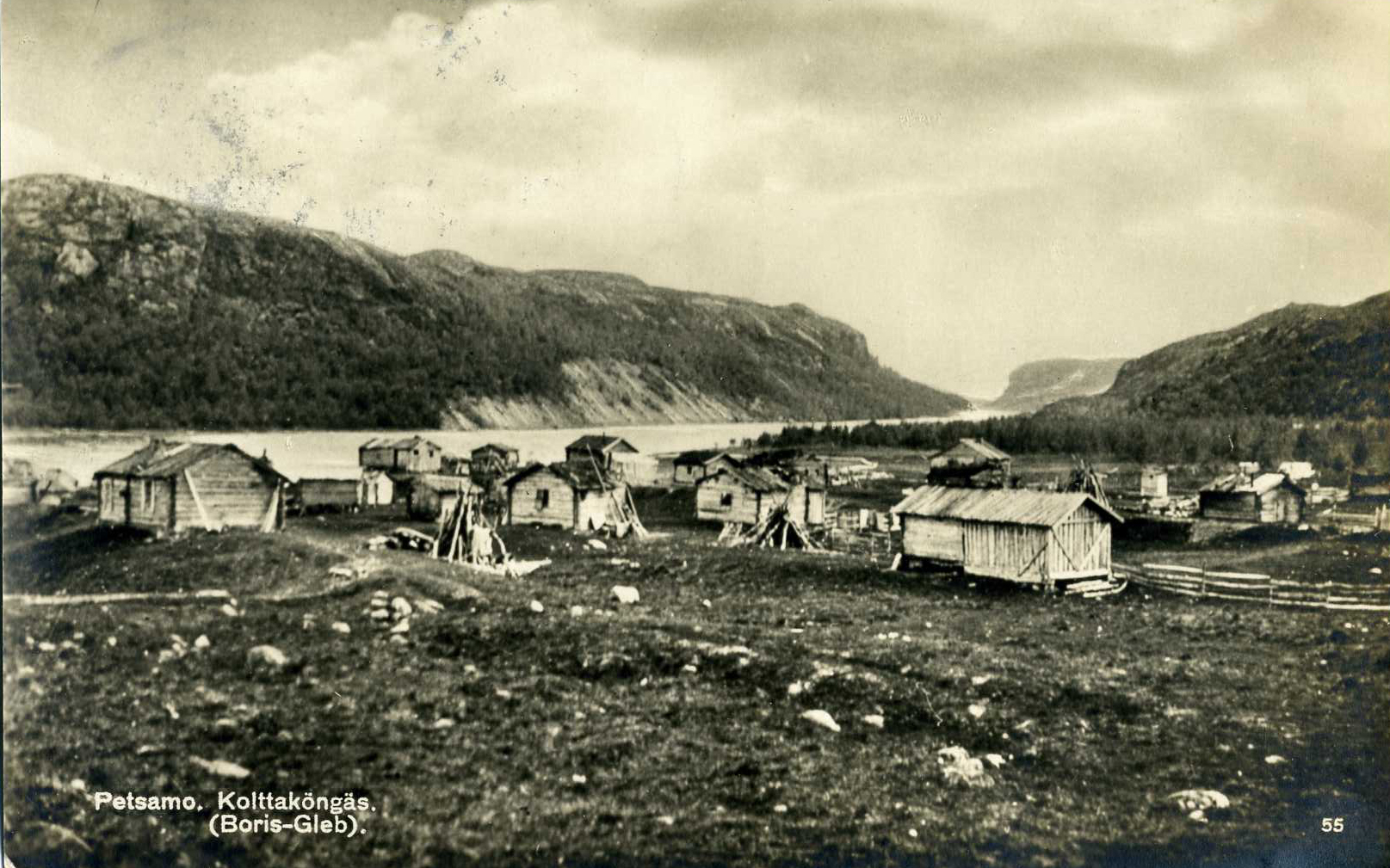 back